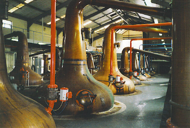 Glenfiddich Distillery stills. Copper, "swan-necked" stills in the shed. Dufftown is a famous, historic distilling town on the "Whisky Trail".